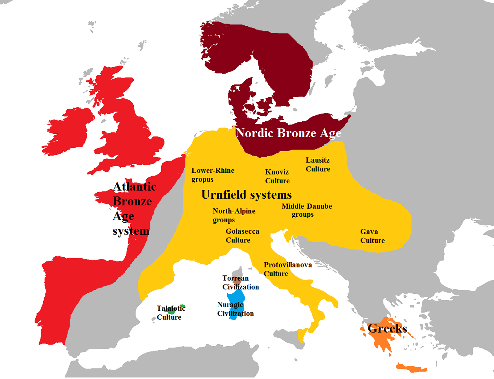 Europe during the late bronze age (1100 BC) [1]